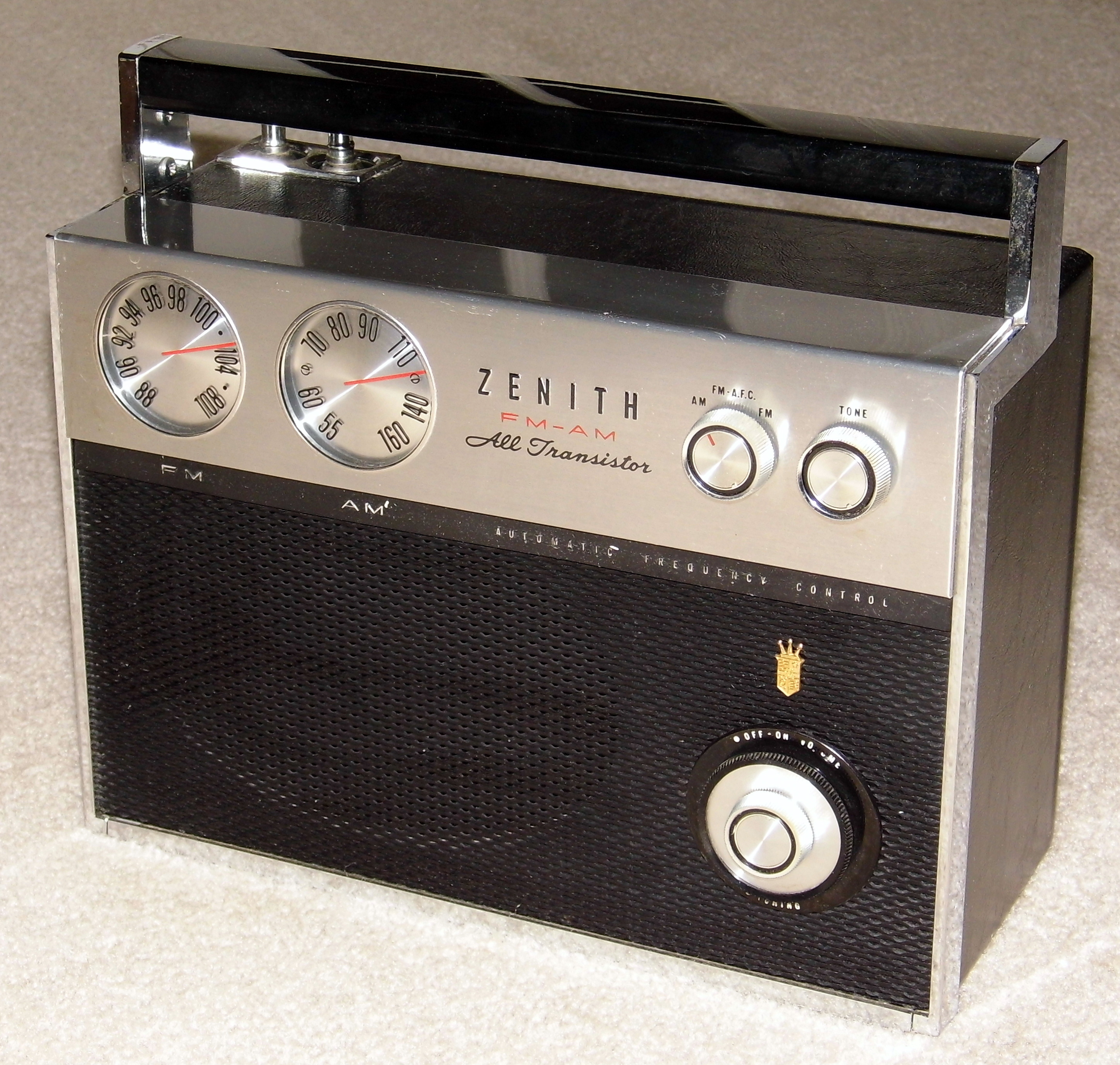 Vintage Zenith Royal 2000 Trans-Oceanic Transistor Radio, Chassis 11ET40Z2, Made in the USA